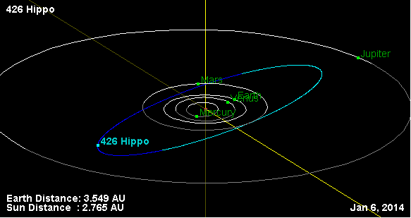 This diagram illustrates the orbit of the Main-belt asteroid 426 Hippo.